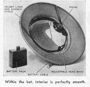 Radio-Electronics, June 1949, Volume 20, Number 9, From page 33. The two tube radio receiver cost $7.95 and was manufactured by the American Merri-Lei Corporation of Brooklyn, N.Y. The radio was powered by an external battery pack.